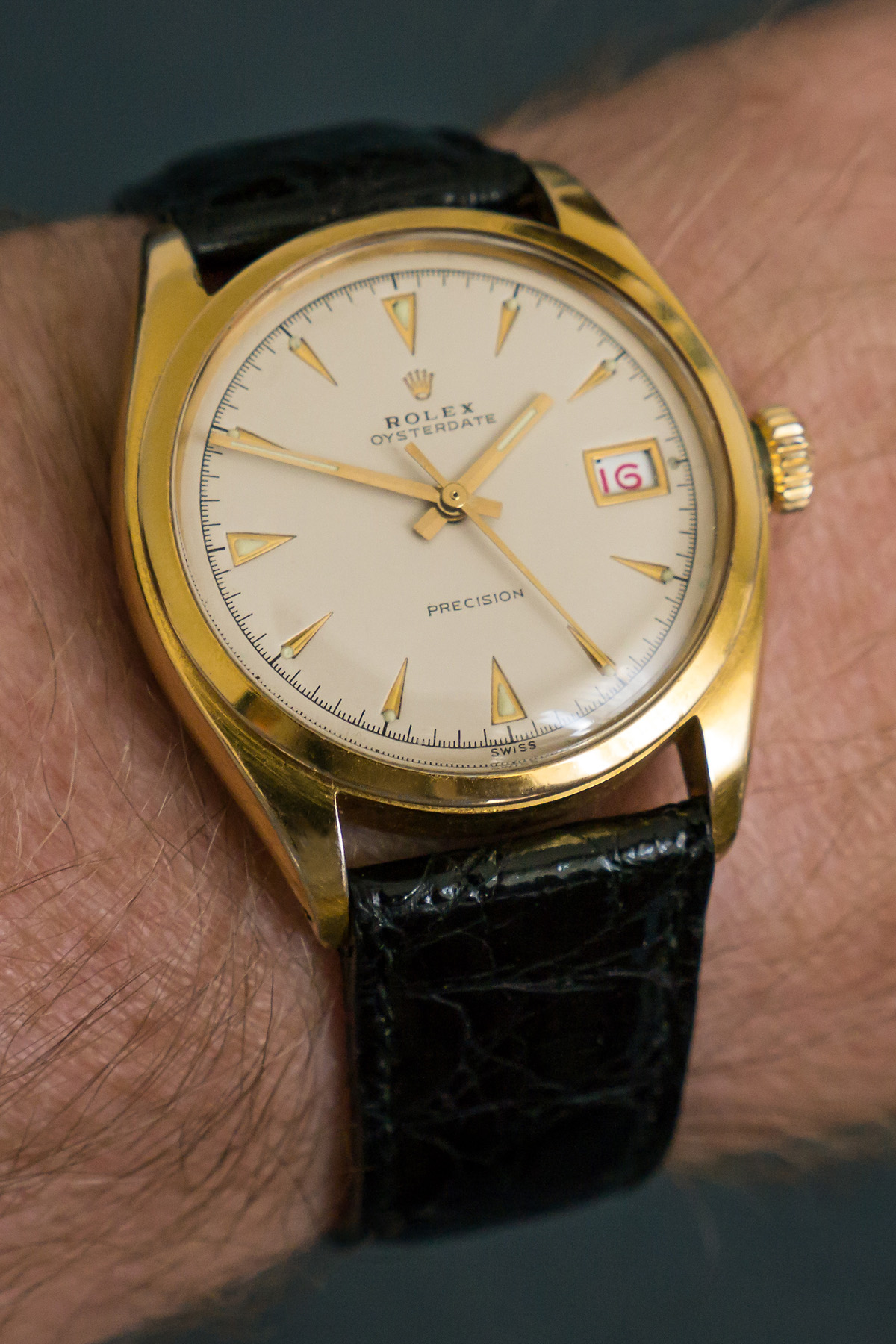 Rolex Precision, 1954